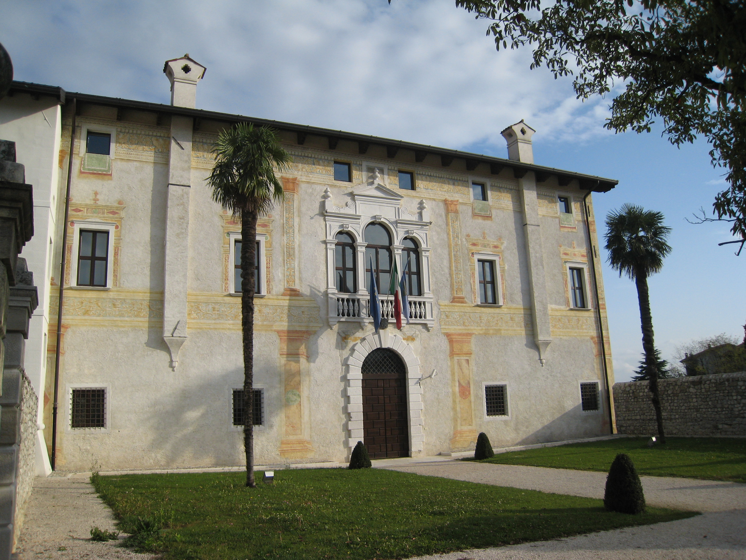 Italy - Spilimbergo (PN) - Upper Palace